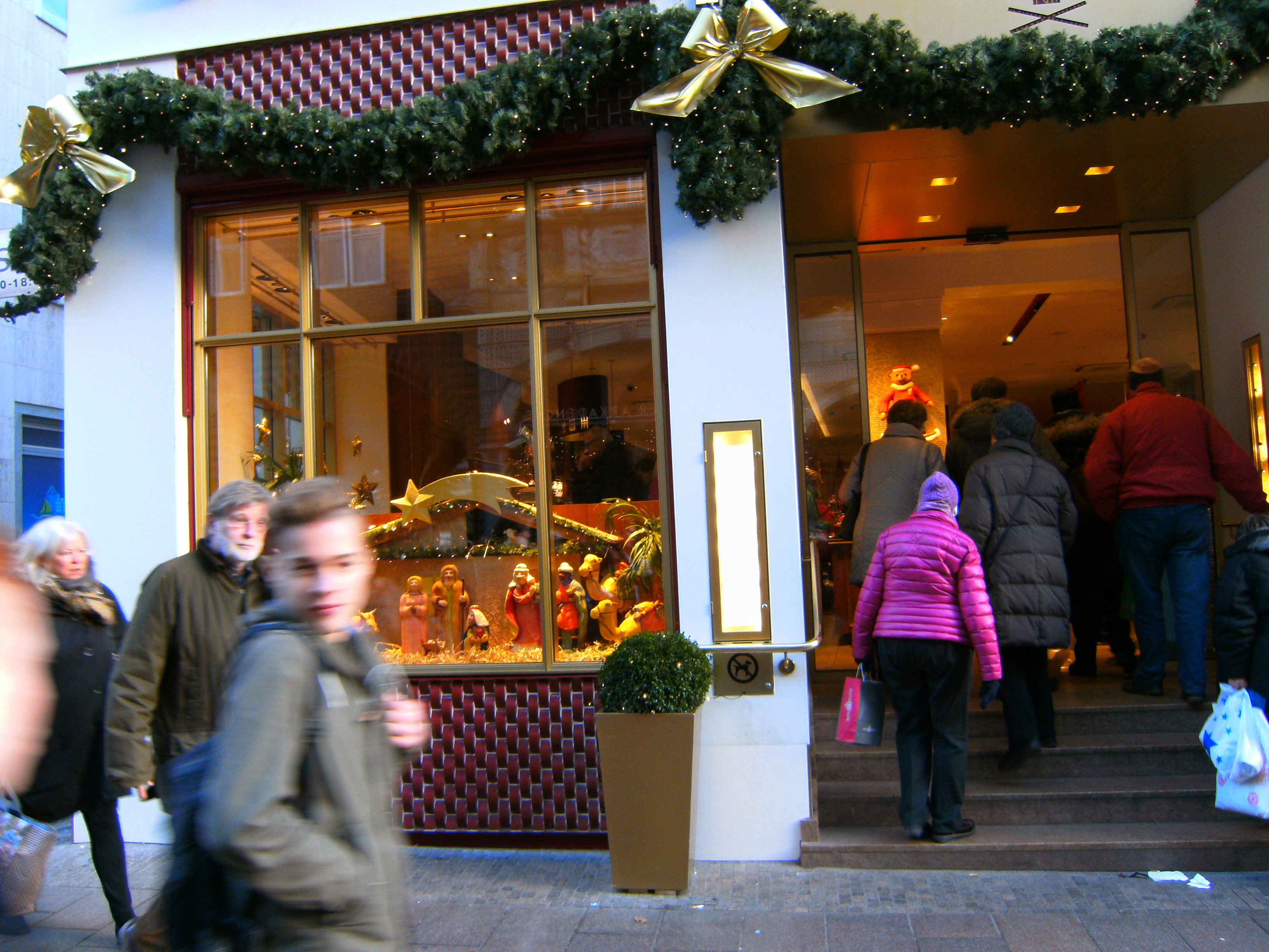 Cafe Niederegger in der Breiten Straße 89 in Lübeck, Germany: Entrance to the Cafe in the pre Advent season.